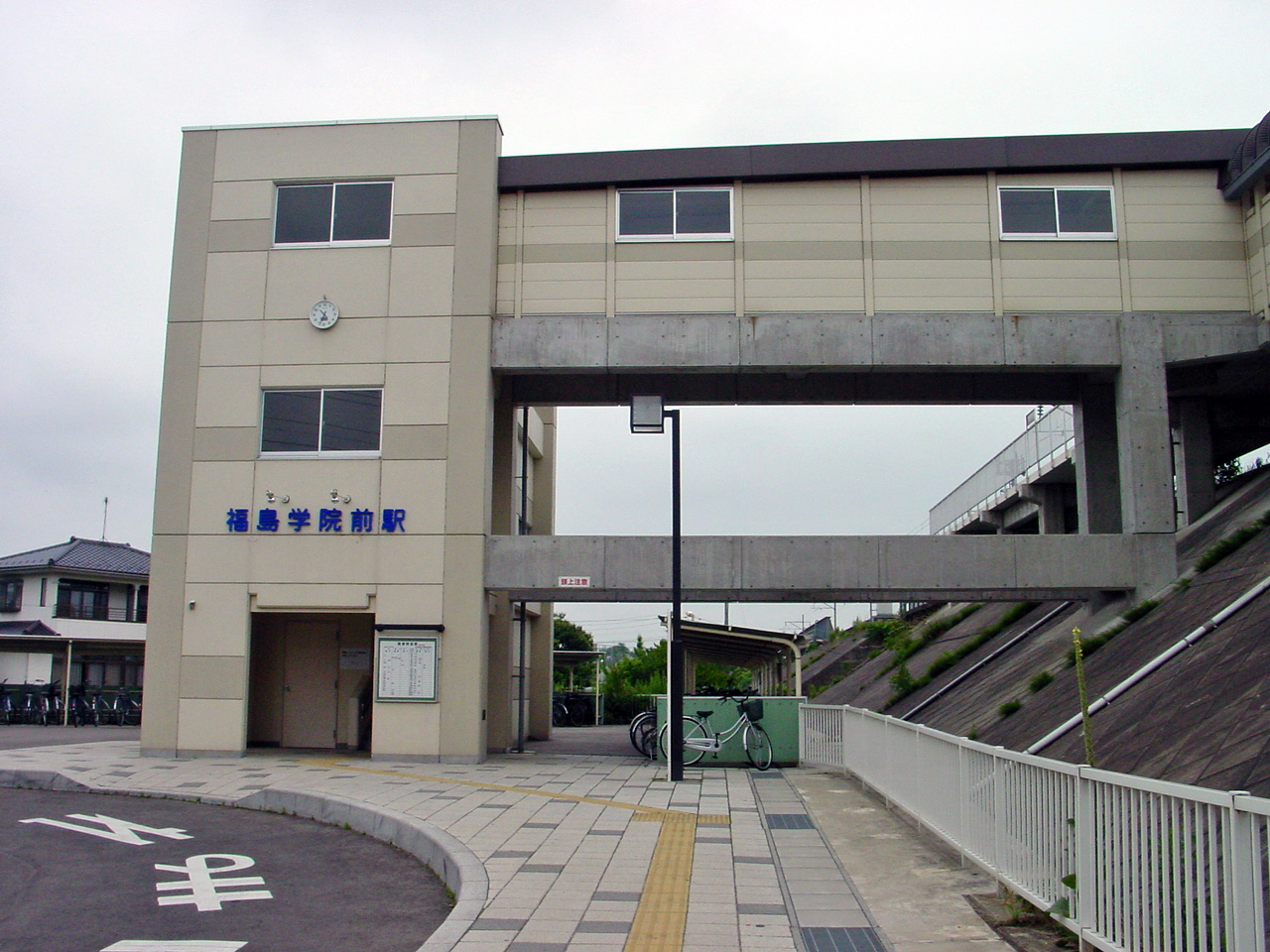 Fukushimagakuinmae Station, Fukushima City, Fukushima, Japan in July 2003